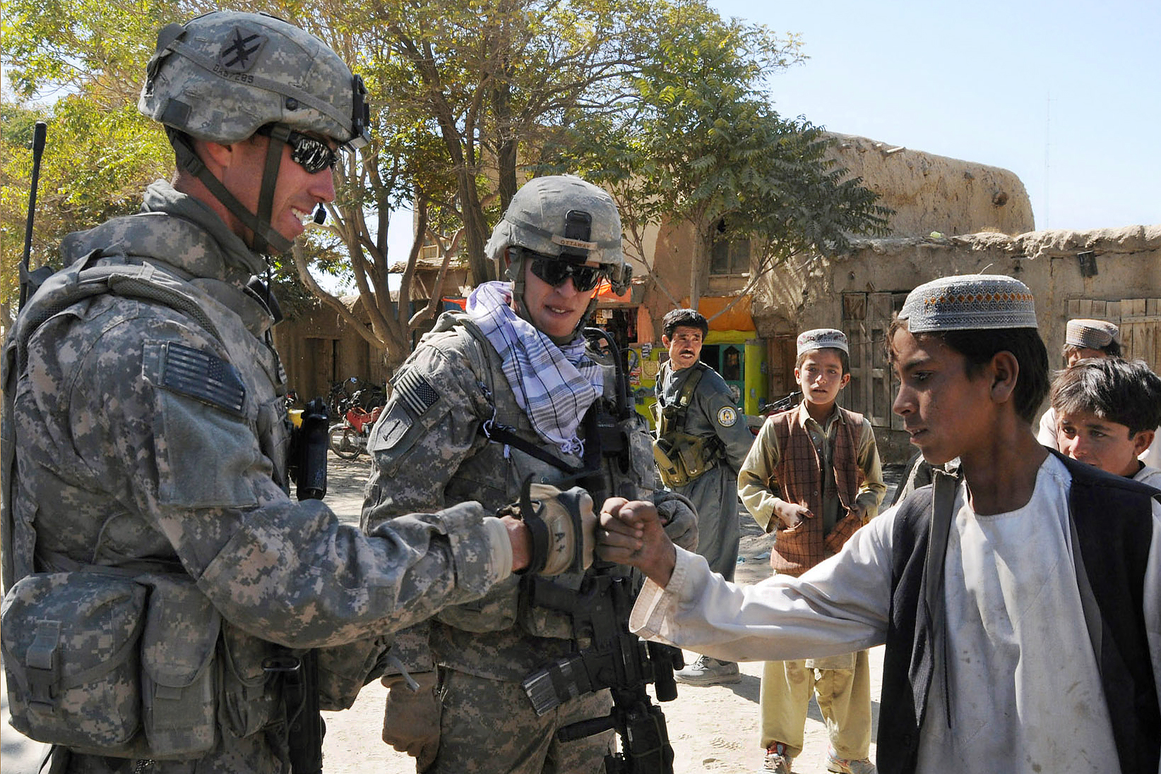 U.S. Army 1st Lt. Russell Dasher teaches a boy how to "fist bump" as Army Staff Sgt. Donald Ottaway looks on at the Andar district bazaar in Afghanistan's Ghazni province, Oct. 20, 2009. U.S. Air Force photo by Master Sgt. Sarah Webb See more at